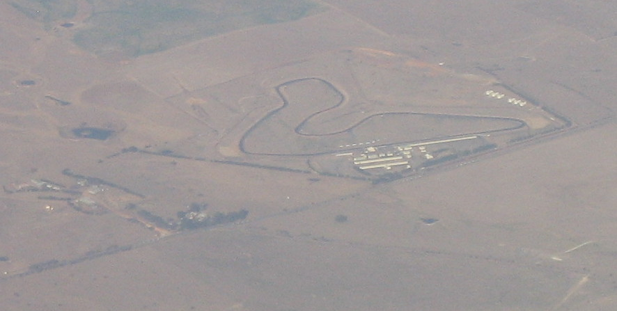 Wakefield Park raceway in New South Wales, Australia. Detail from photo taken from right hand side of a flight from Canberra to Sydney.